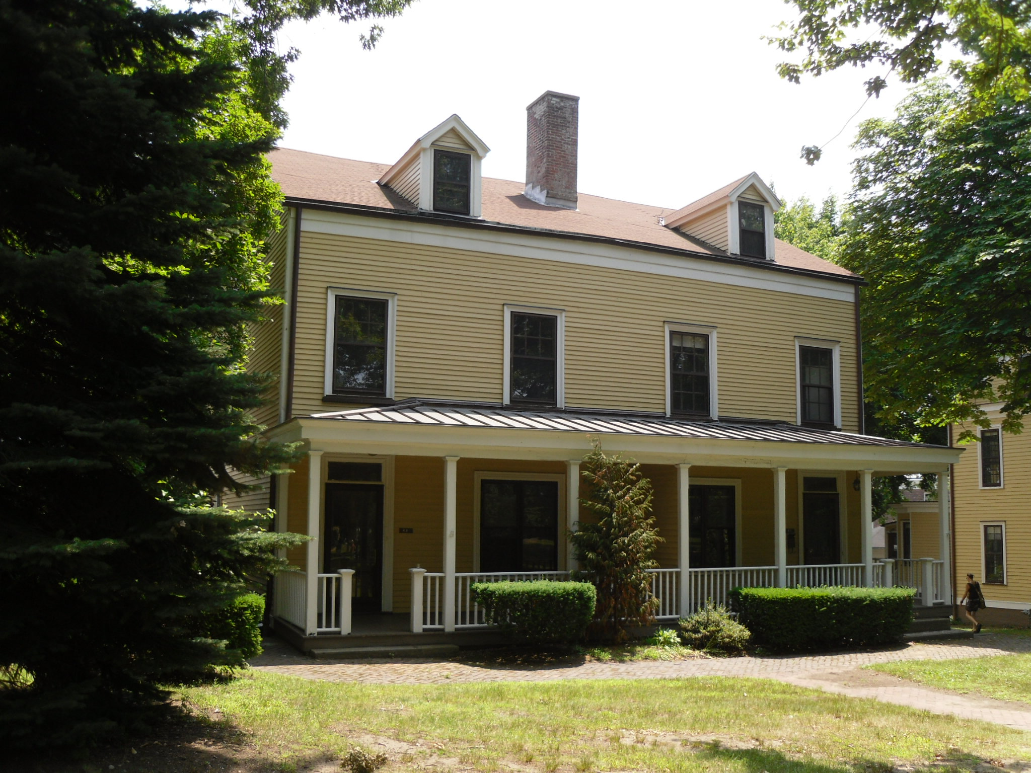 Governors Island - New York City